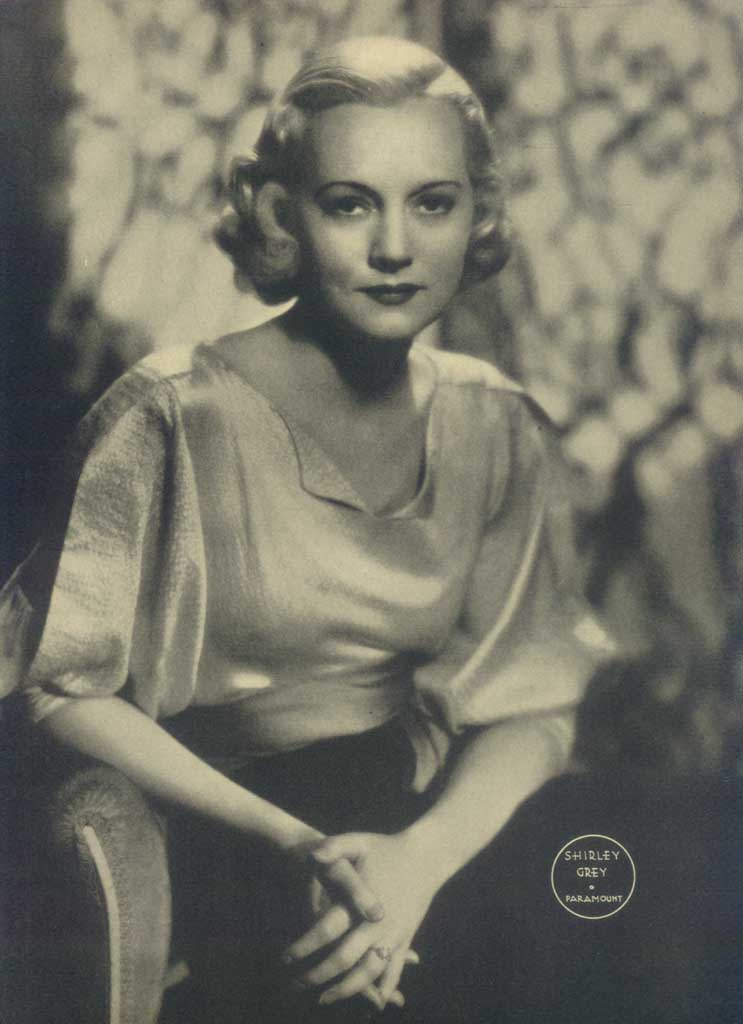 Publicity photo of Shirley Grey for Argentinean Magazine. (Printed in USA)